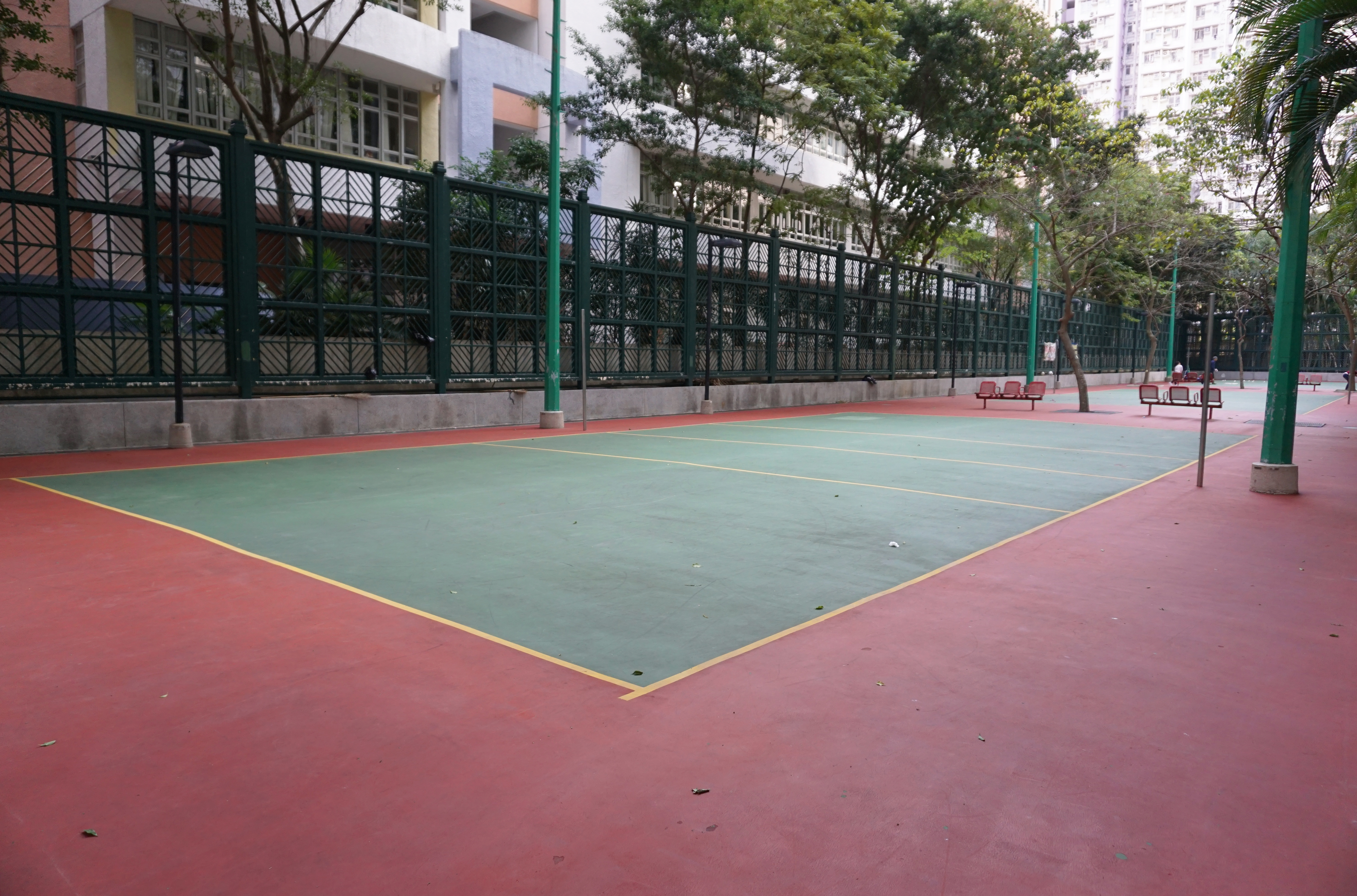 Chung On Estate in Ma On Shan, Hong Kong.